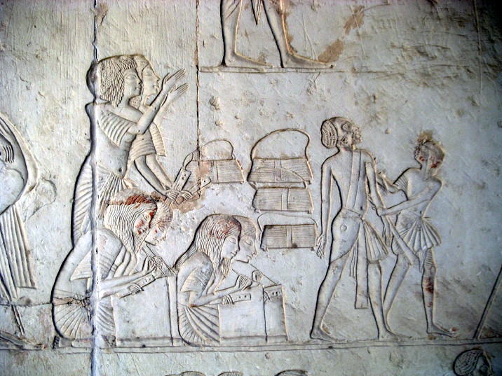 Relief of Horemheb's tomb - 18th dynasty of Egypt - Saqqara